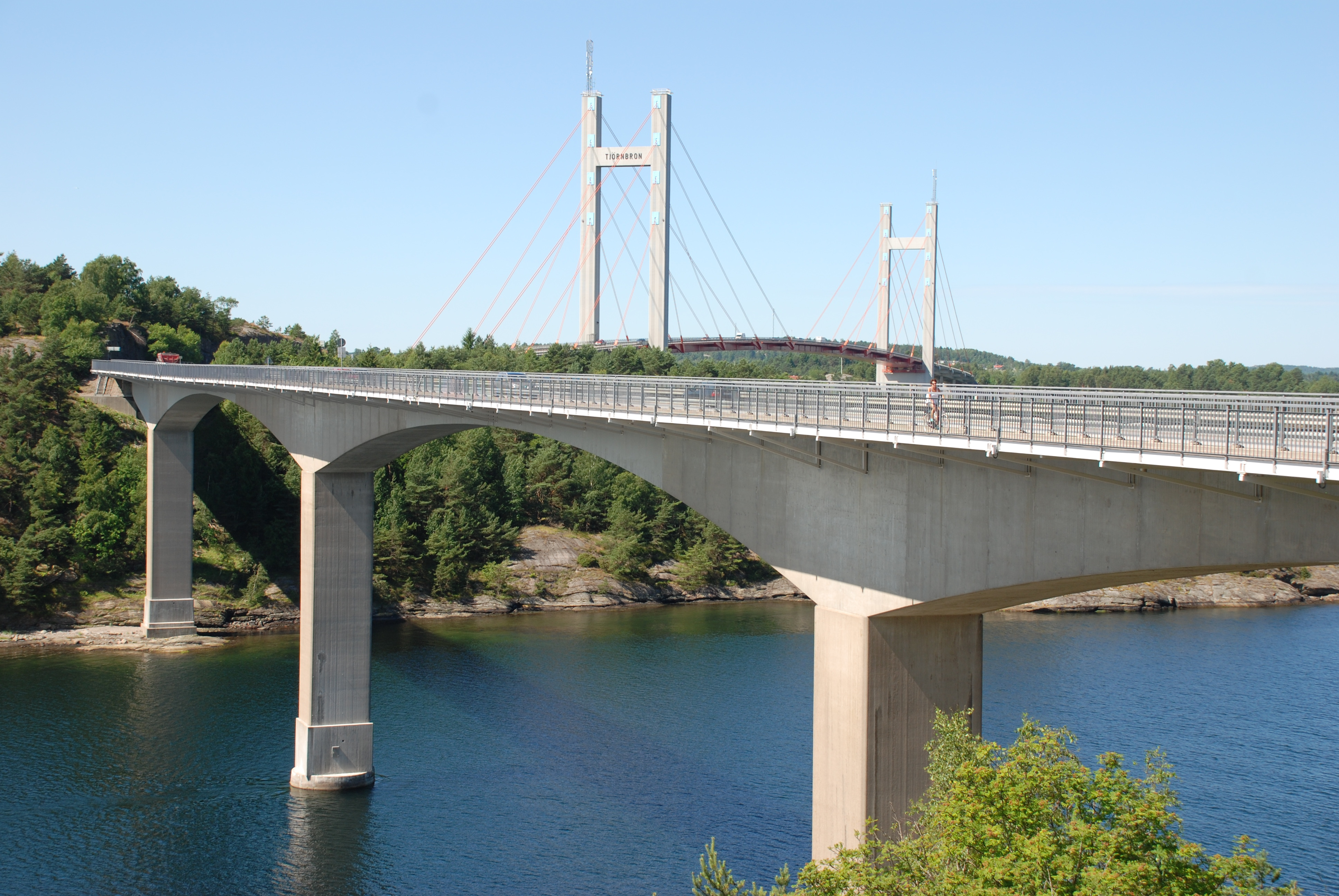 The bridge Källösundsbron between the islands Stenungsön and Källön, one of the bridges connecting the island Tjörn with the mainland at Stenungsund in Bohuslän, western coast of Sweden.